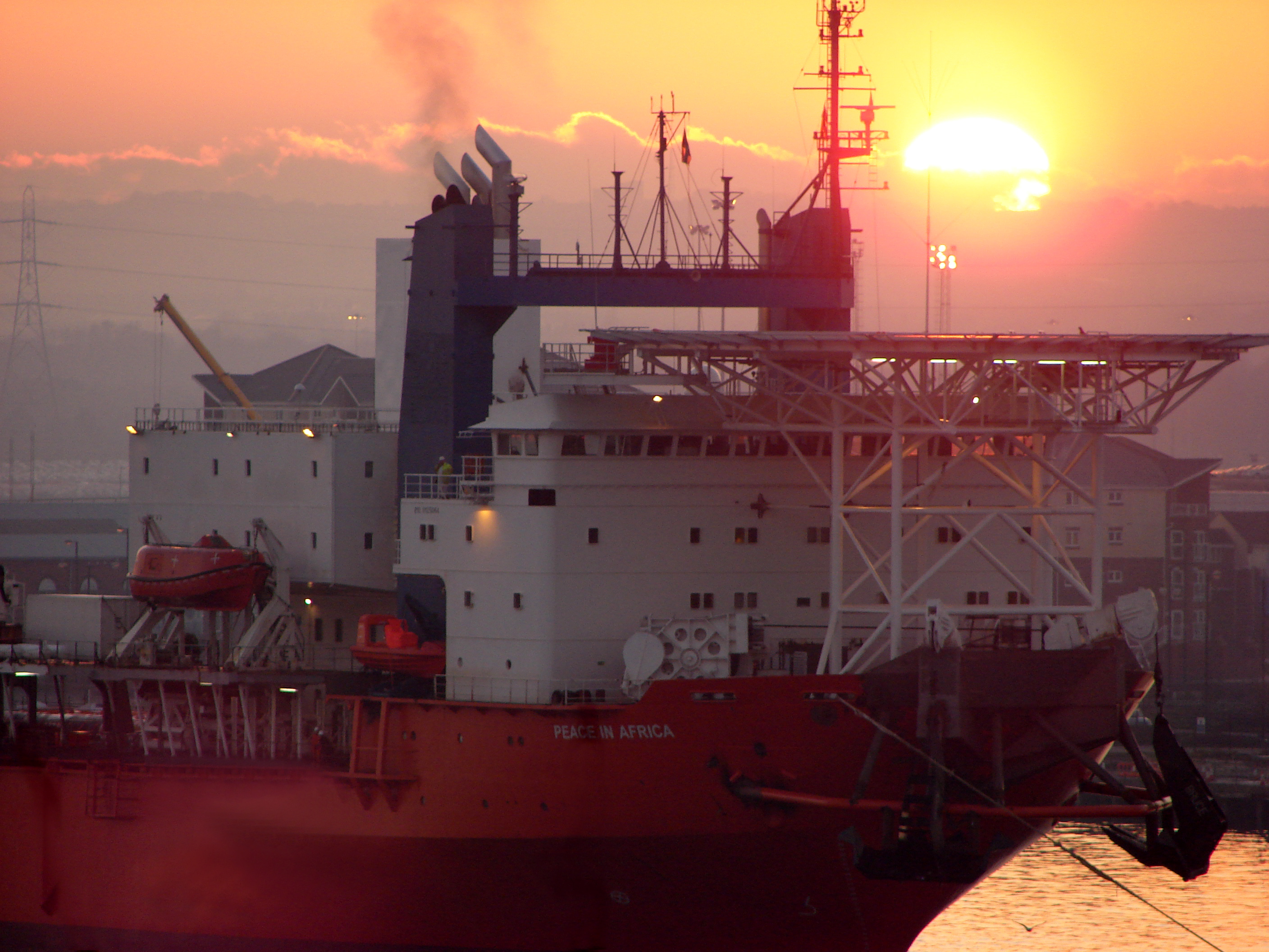 This ship was a major ship conversion project for DeBeers the diamond people and was carried out on the Tyne.